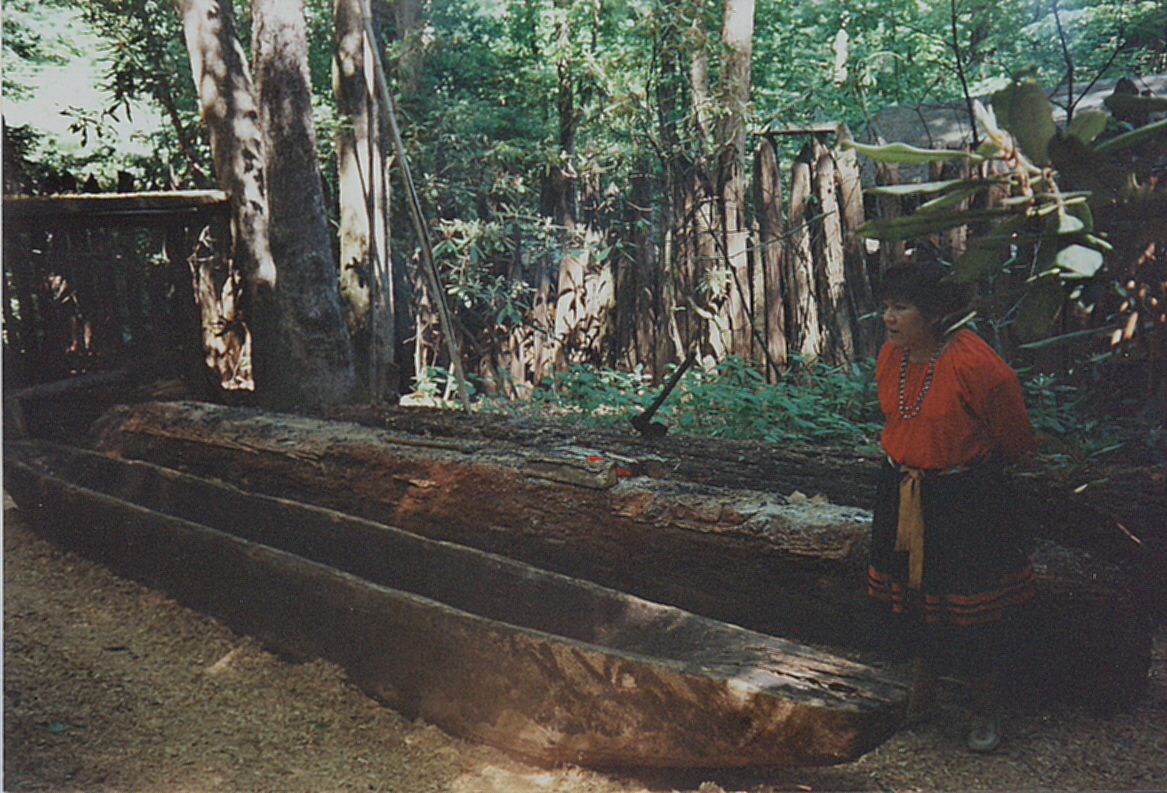 Demonstration of dugout canoe-making Ocanaluftee Indian village, Cherokee, NC Photo by Jan Kronsell, 2000